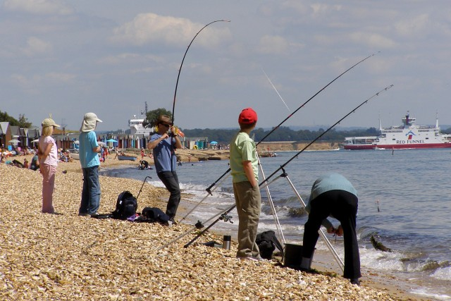 Beach fishing, Stanswood Bay This sea angler looks like he might have caught something interesting, but it turned out to be a big piece of seaweed. At high tide (shown here) the submerged beach is very flat sand and gravel banks, I'd think not really suitable for fishing. In the distance ships can be seen leaving Southampton Water off Calshot Spit.